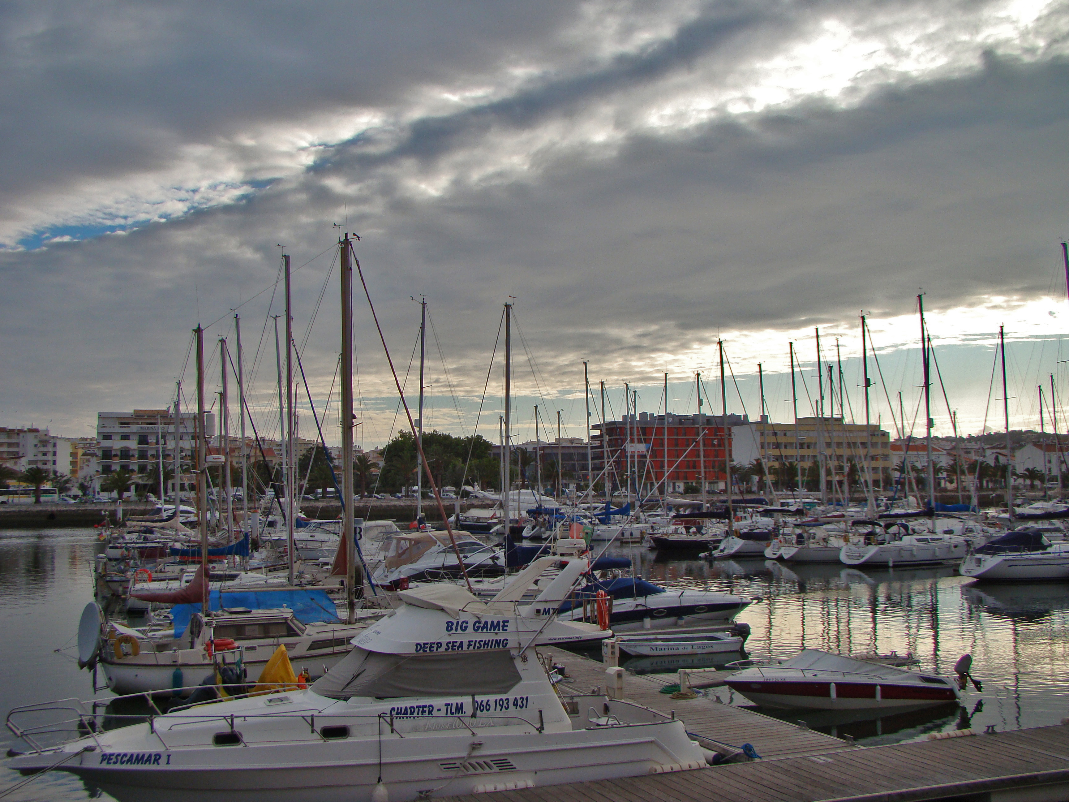 Lagos's Marina